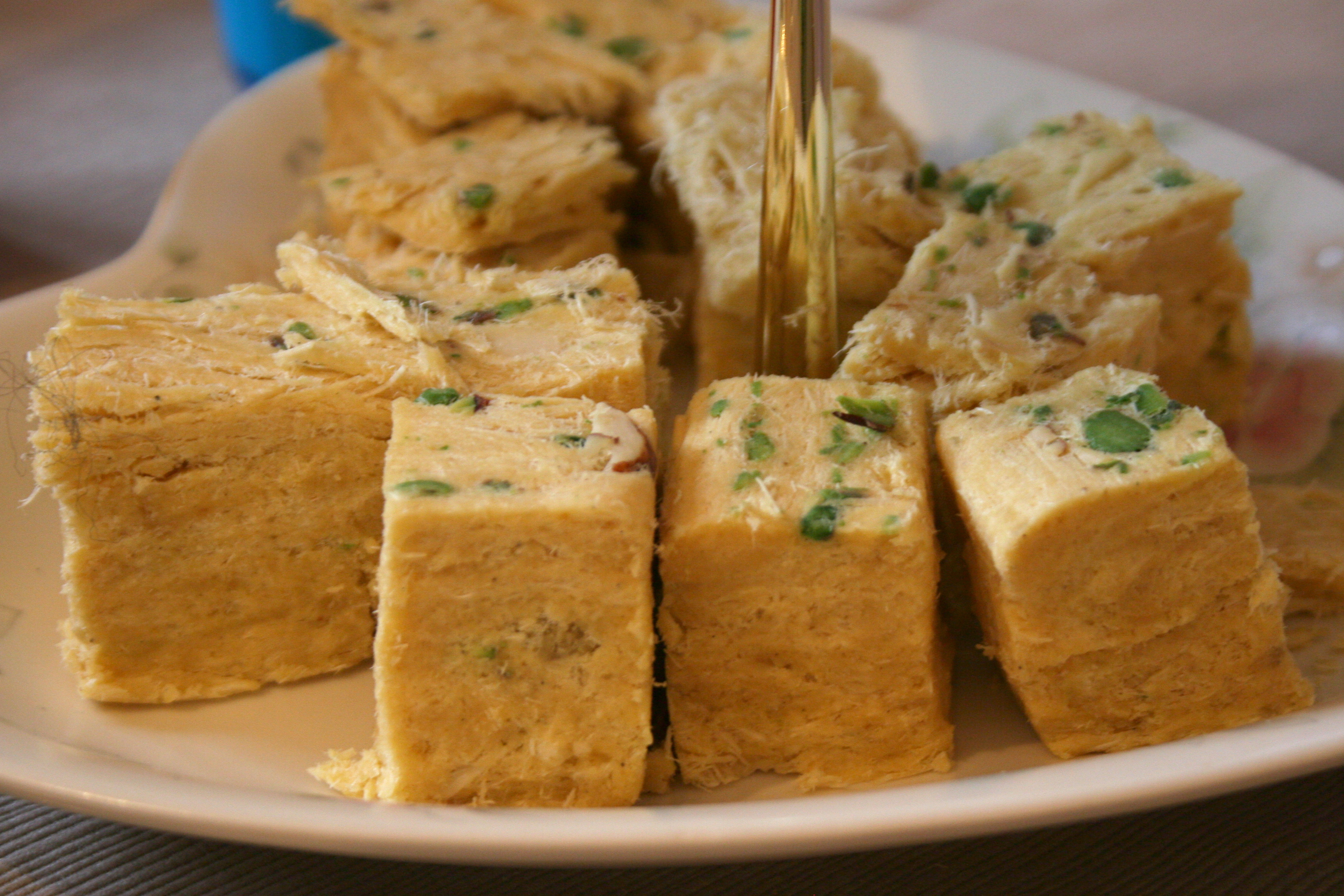 Sohan Papdi is an Indian sweet that preserves well, and served on festive occasions such as Diwali. It is made from gram flour (besan), white flour, milk, sugar, clarified butter (ghee), seeds and dry fruits such as pistachios and almond slivers. It is typically square or cuboid shaped, that is crisp and flaky to bite, with sweet fibrous crunchy melting feel in the mouth. It is a sweet common in street shops of India. Also found in other South Asian countries.